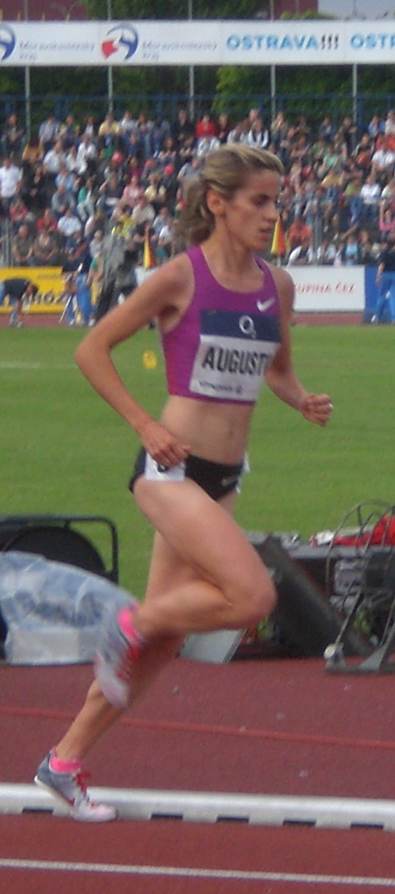 Portuguese middle distance runner Jéssica Augusto at the 2010 Golden Spike Ostrava